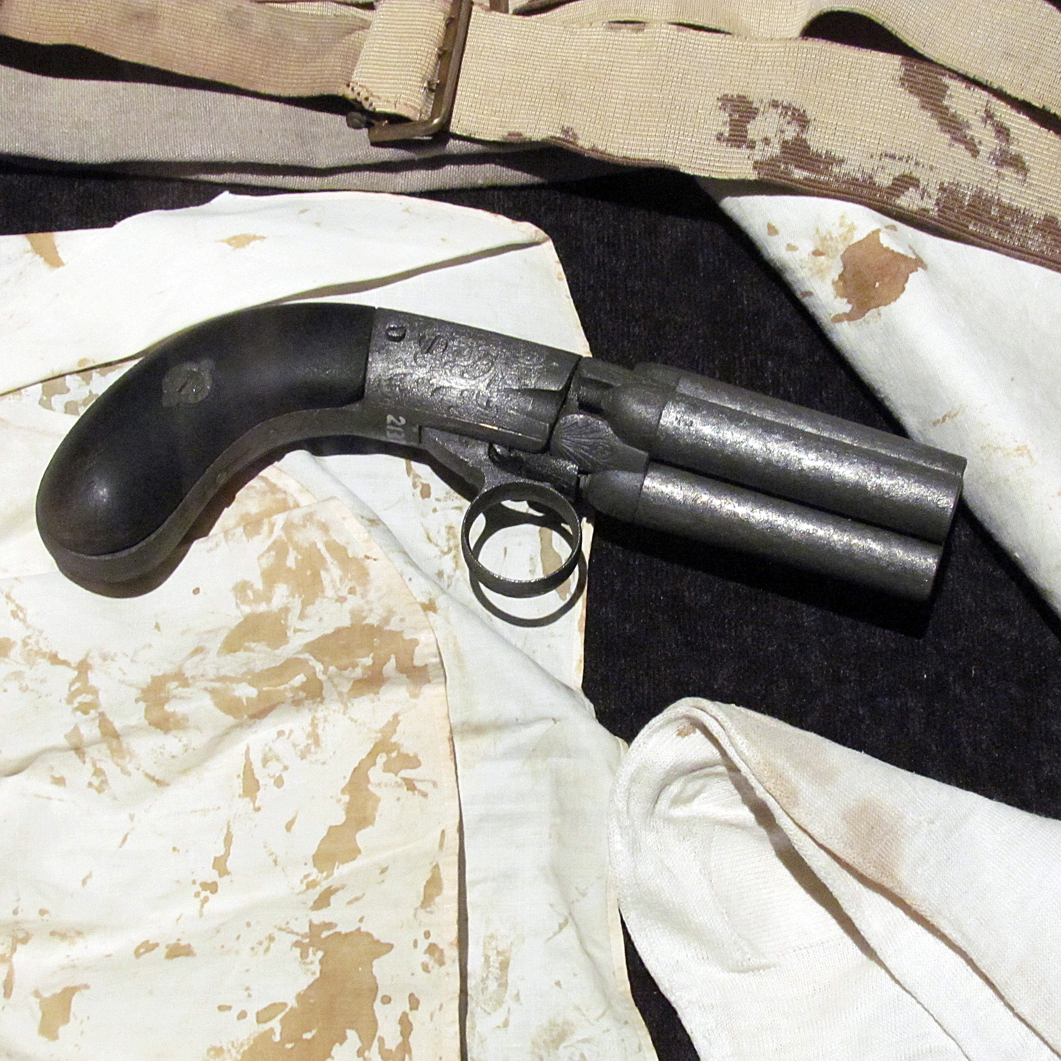 Jules Mariette 1834 revolver used in assassination of Prince Mihailo Obrenovic